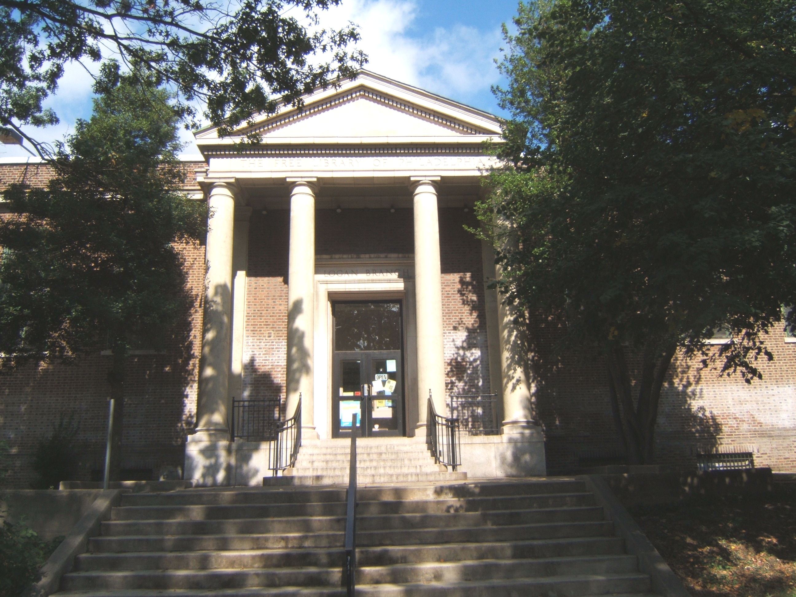 Free Library of Philadelphia, Logan Branch, 1333 Wagner Avenue, Philadelphia, PA 19141